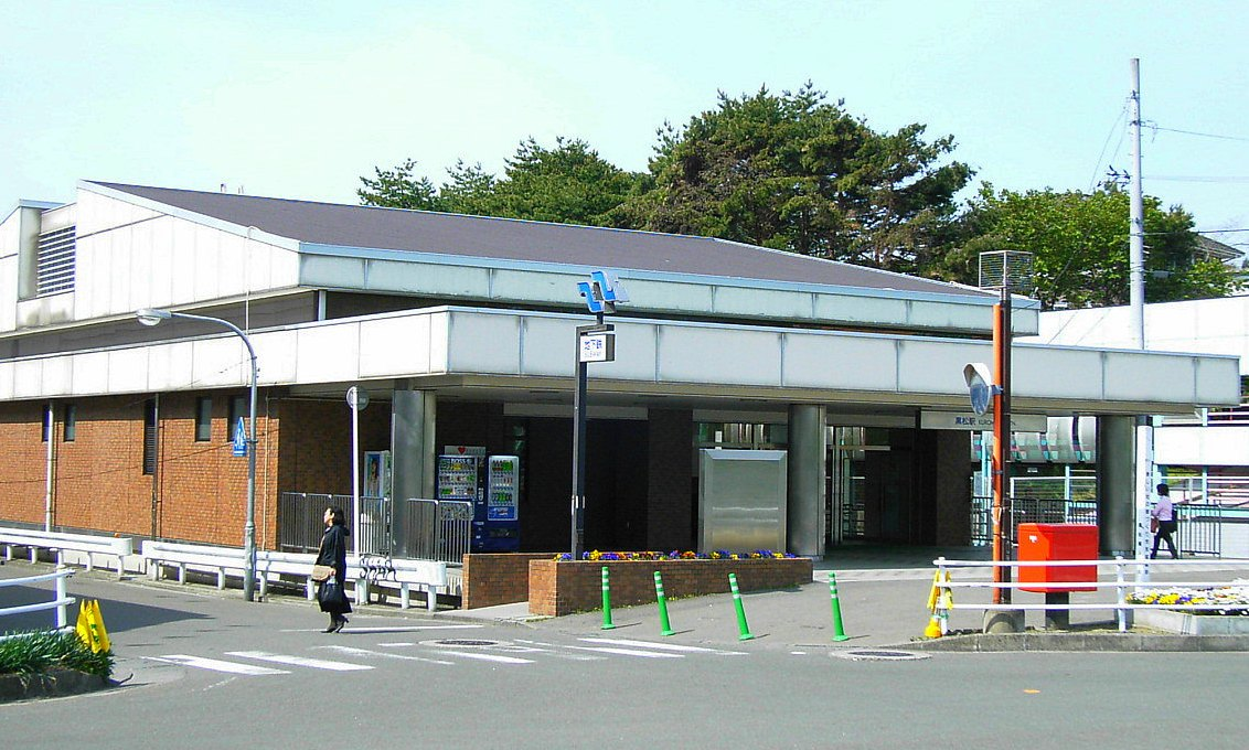 Kuromatsu Station of the Sendai Subway. Sendai, Miyagi prefecture, Japan.